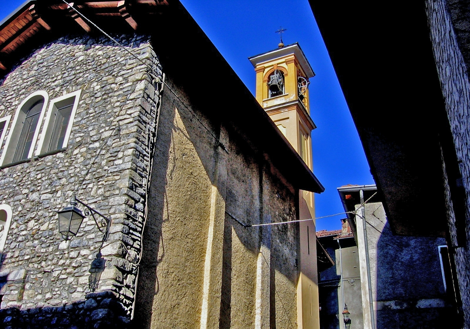 Esino Lario.